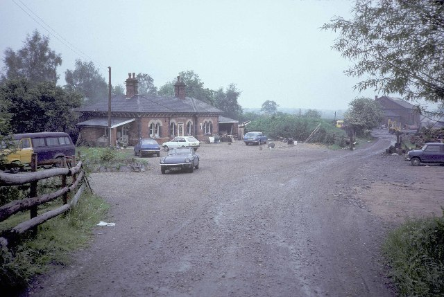 The remains of Stoke Golding station.